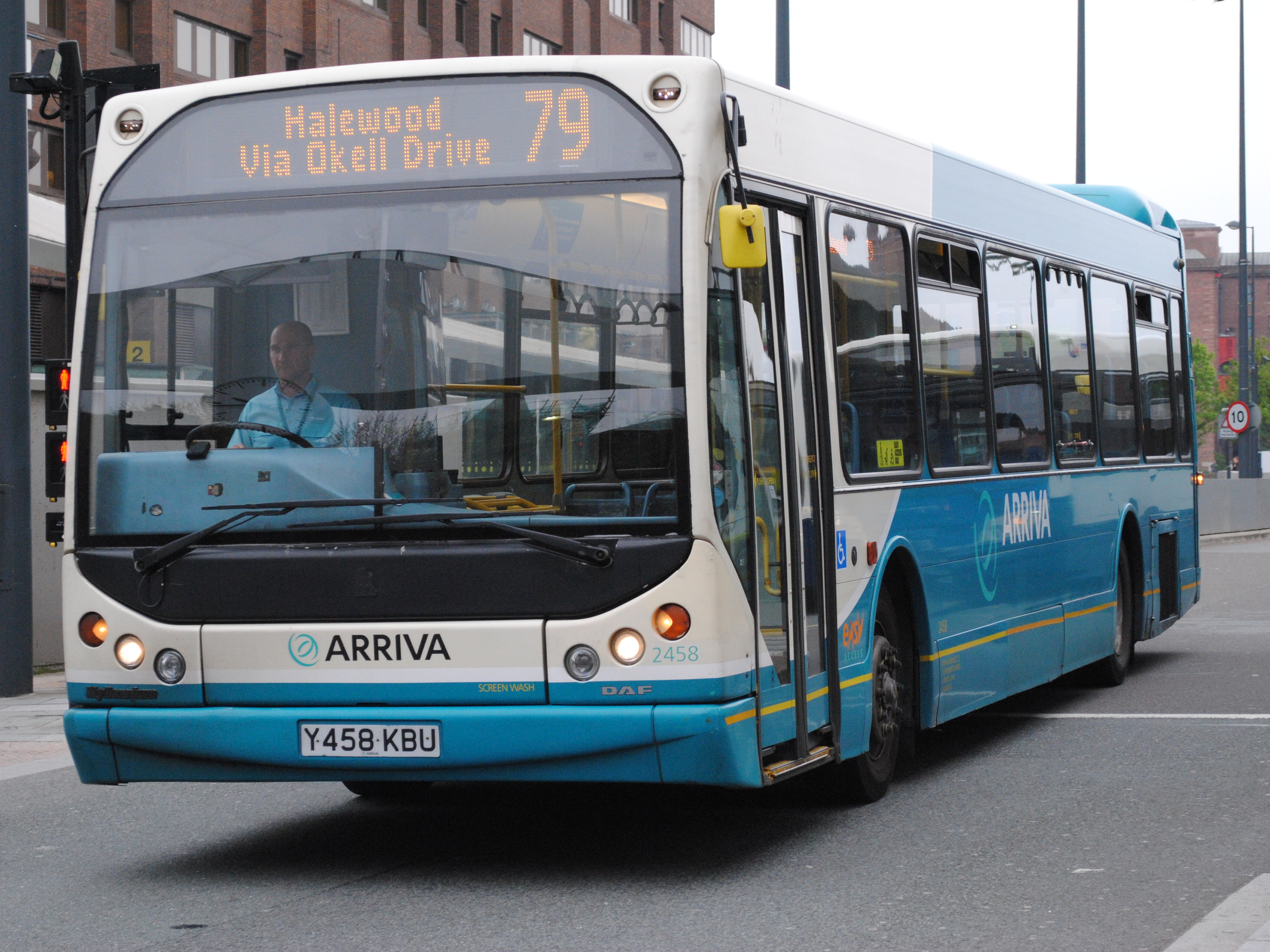 DAF SB220GS ELC Myllennium. on rare 79 Liverpool One Bus Station - Halewood route normally used VDL DB300 Wright Gemini 2